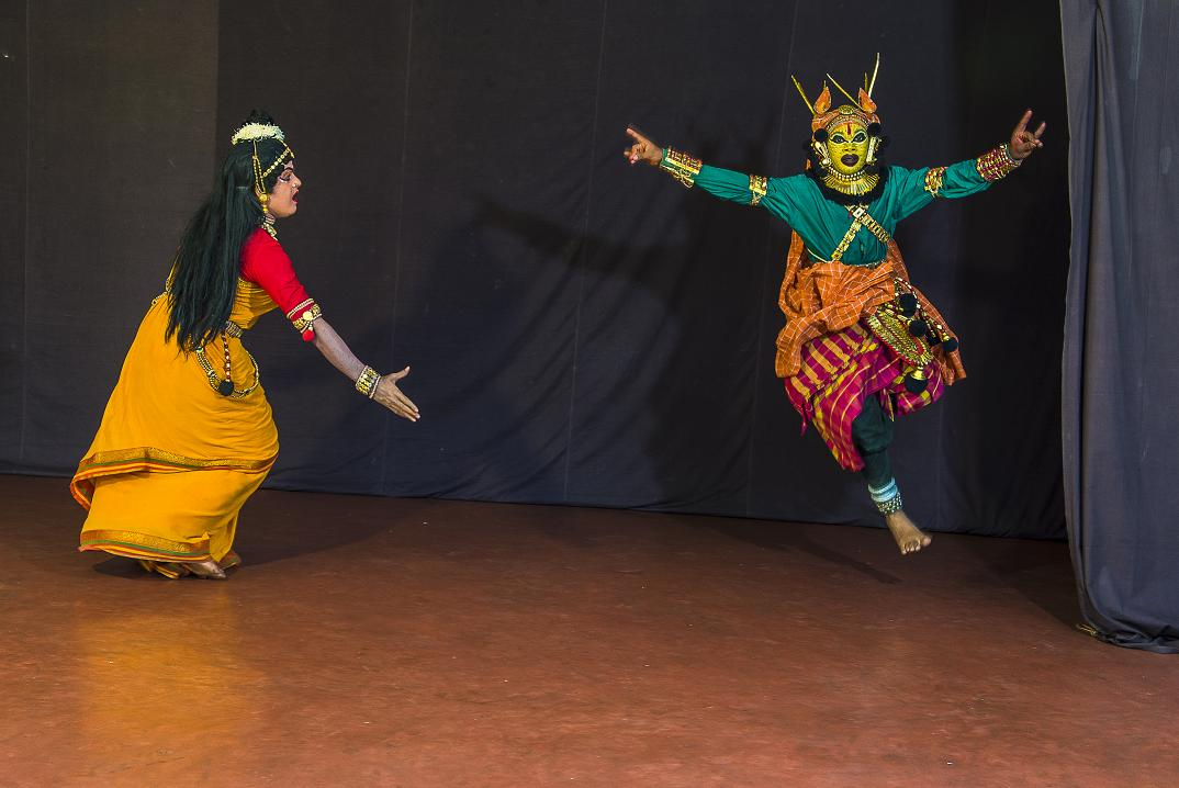 Jatayu-1